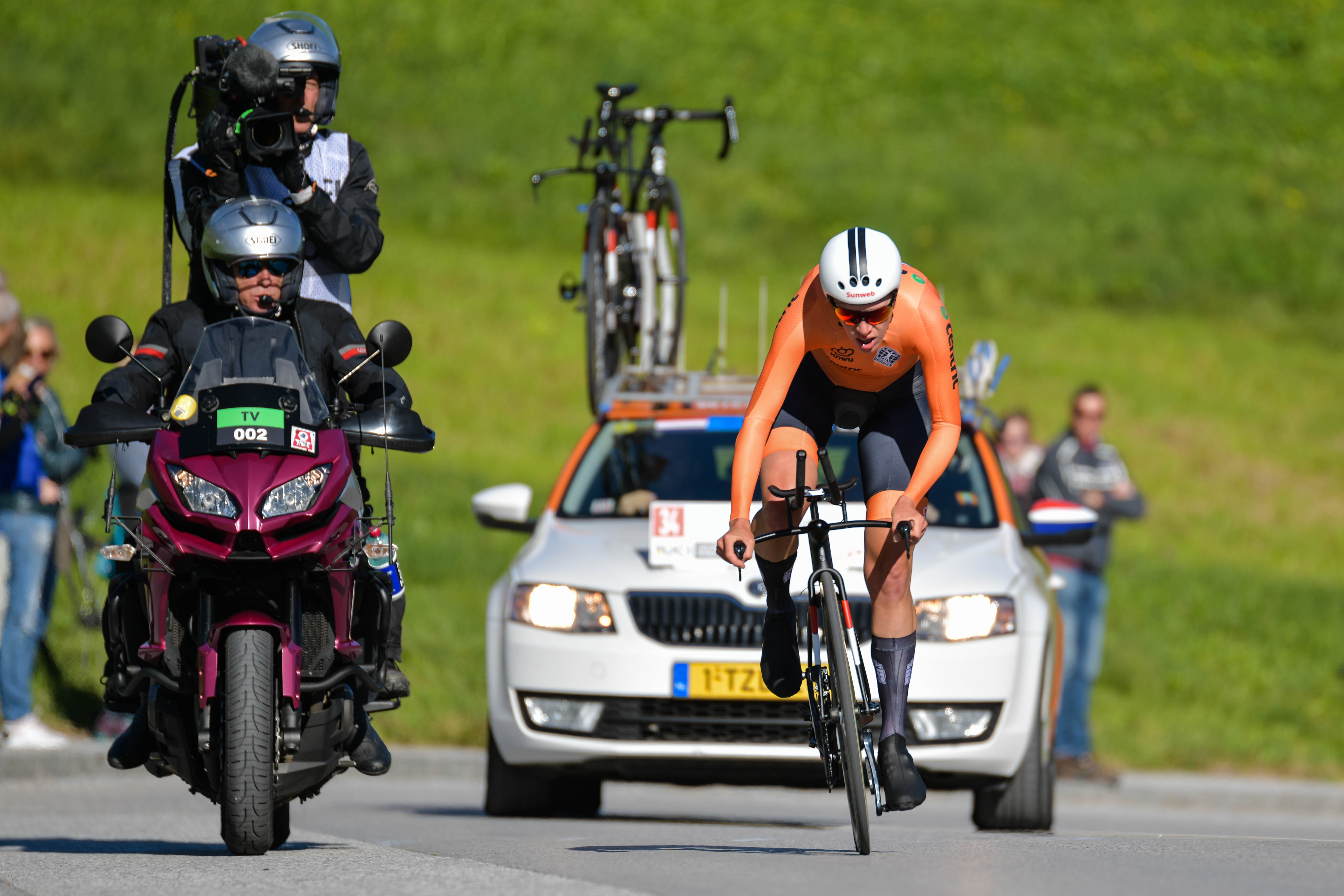 2018 UCI Road World Championships Innsbruck/Tirol Women Elite Individual Time Trial. Picture shows: Ellen van Dijk of the Netherlands